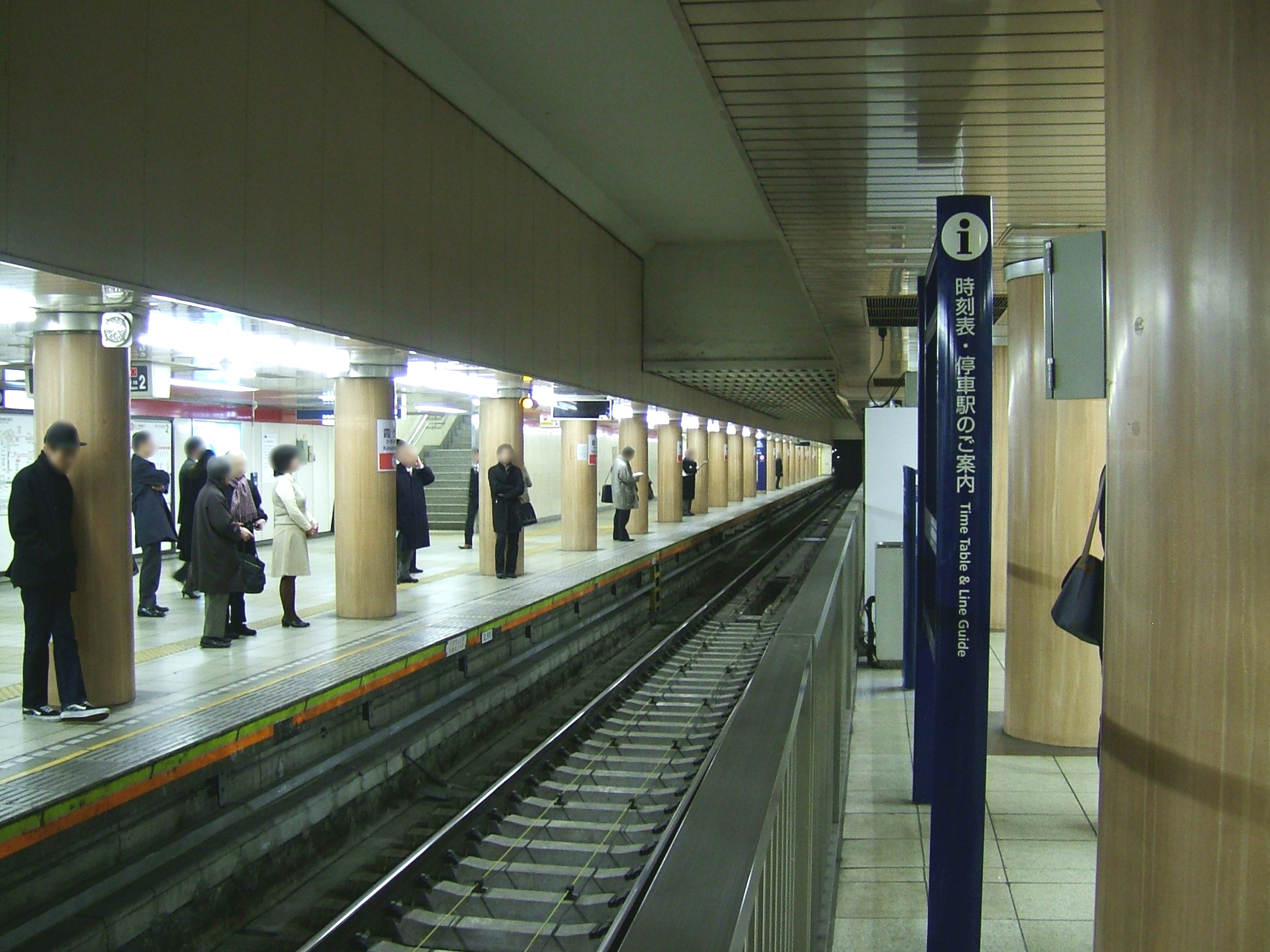 The platforms at Kasumigaseki Station on the Tokyo Metro Marunouchi Line